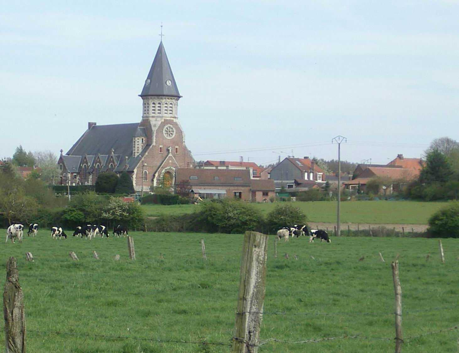 Village de Fromelles